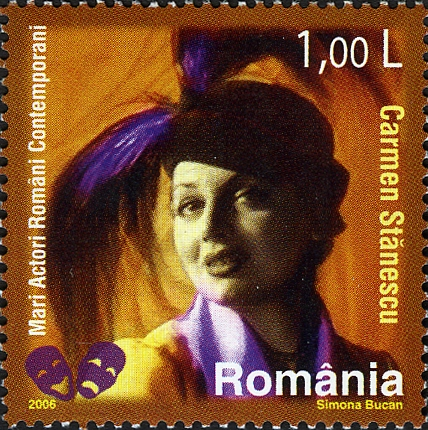 Carmen Stănescu, Stamps of Romania, 2006